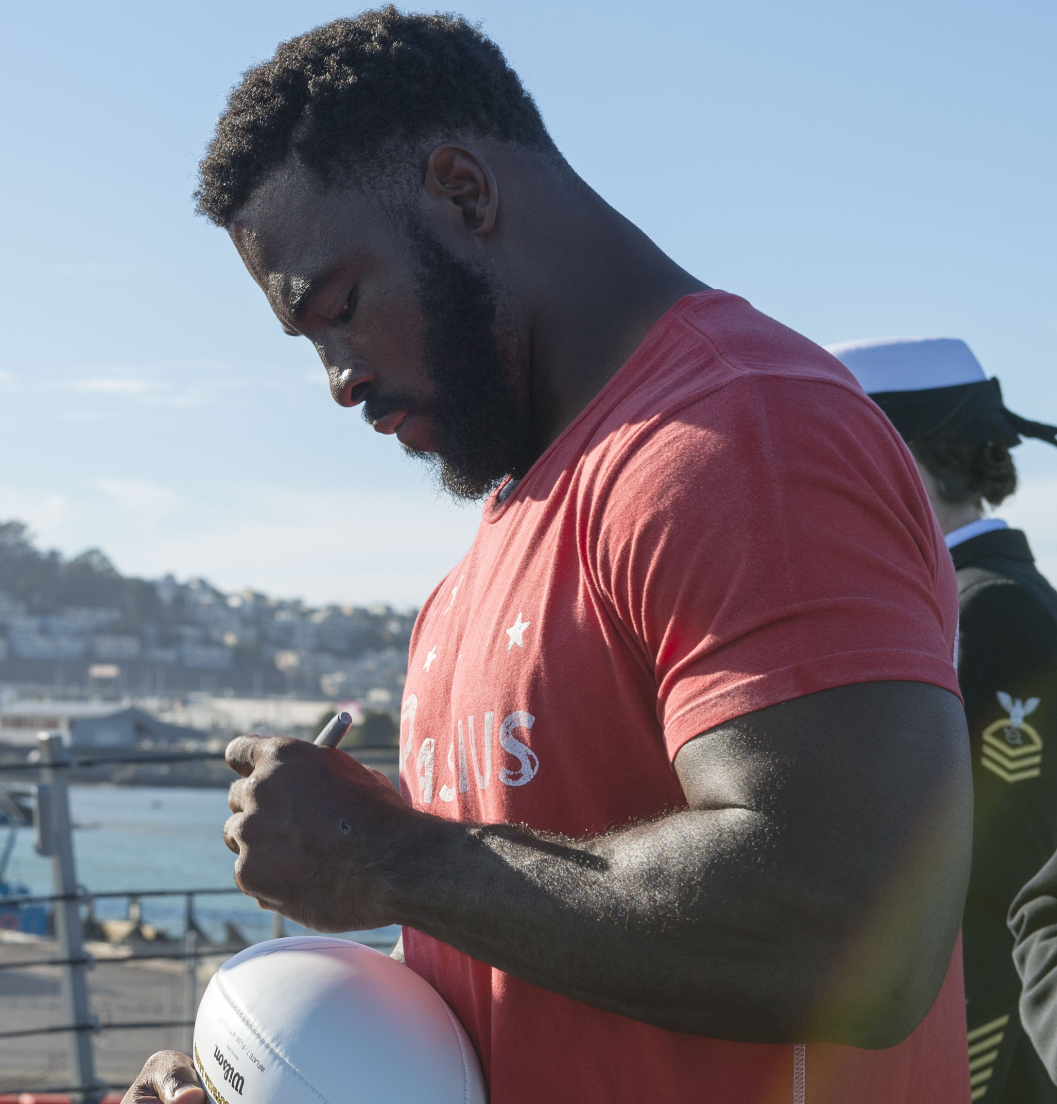 Oakland Raider defensive end, Justin Tuck, signs an autograph for a United States Navy sailor.